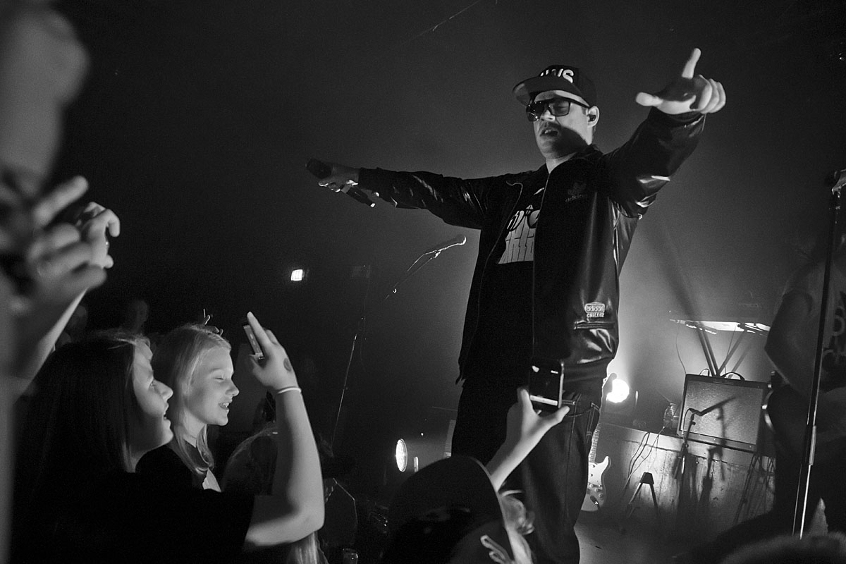 Rapperen Niklas ved en koncert på spillestedet Forbrændingen den 22/9-12